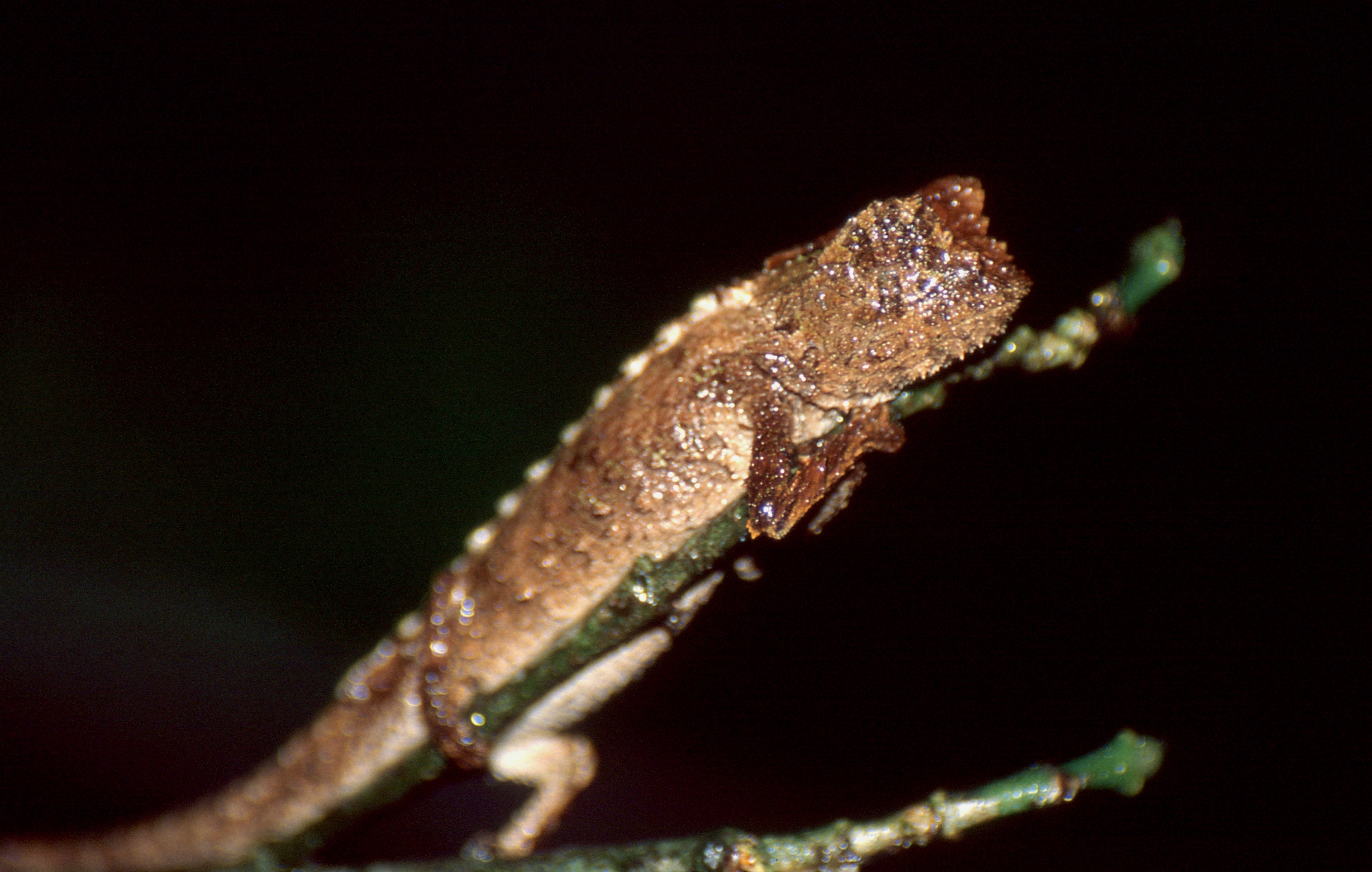 Amber Mountain National Park, South of Antsiranana, MADAGASCAR Scanned Slide from November 1999